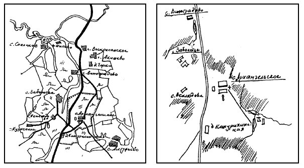 Plan of Arkhangelsk-Tyurikova in 1798-1812.